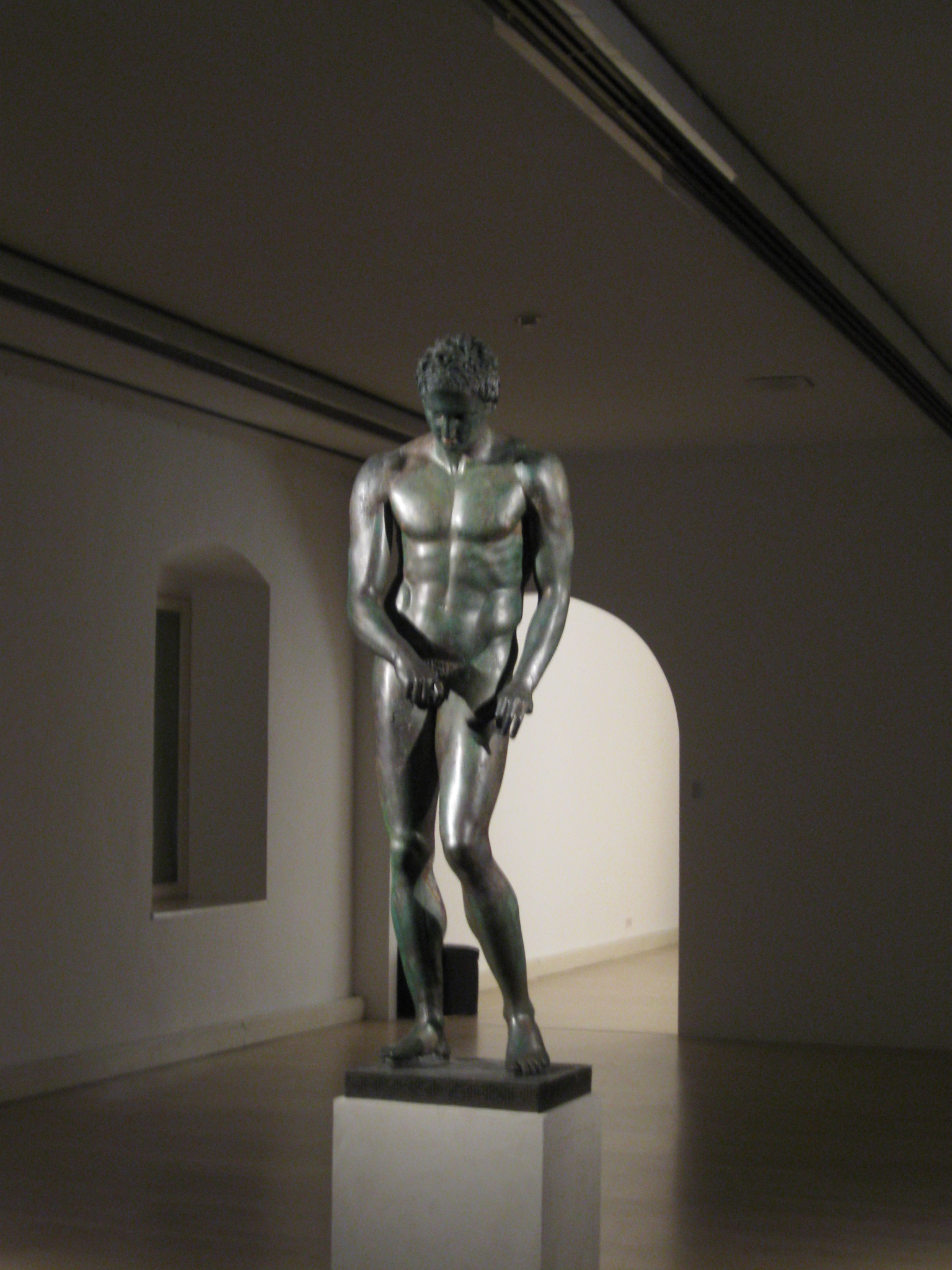 Croatian Apoxyomenos exhibited in Zagreb